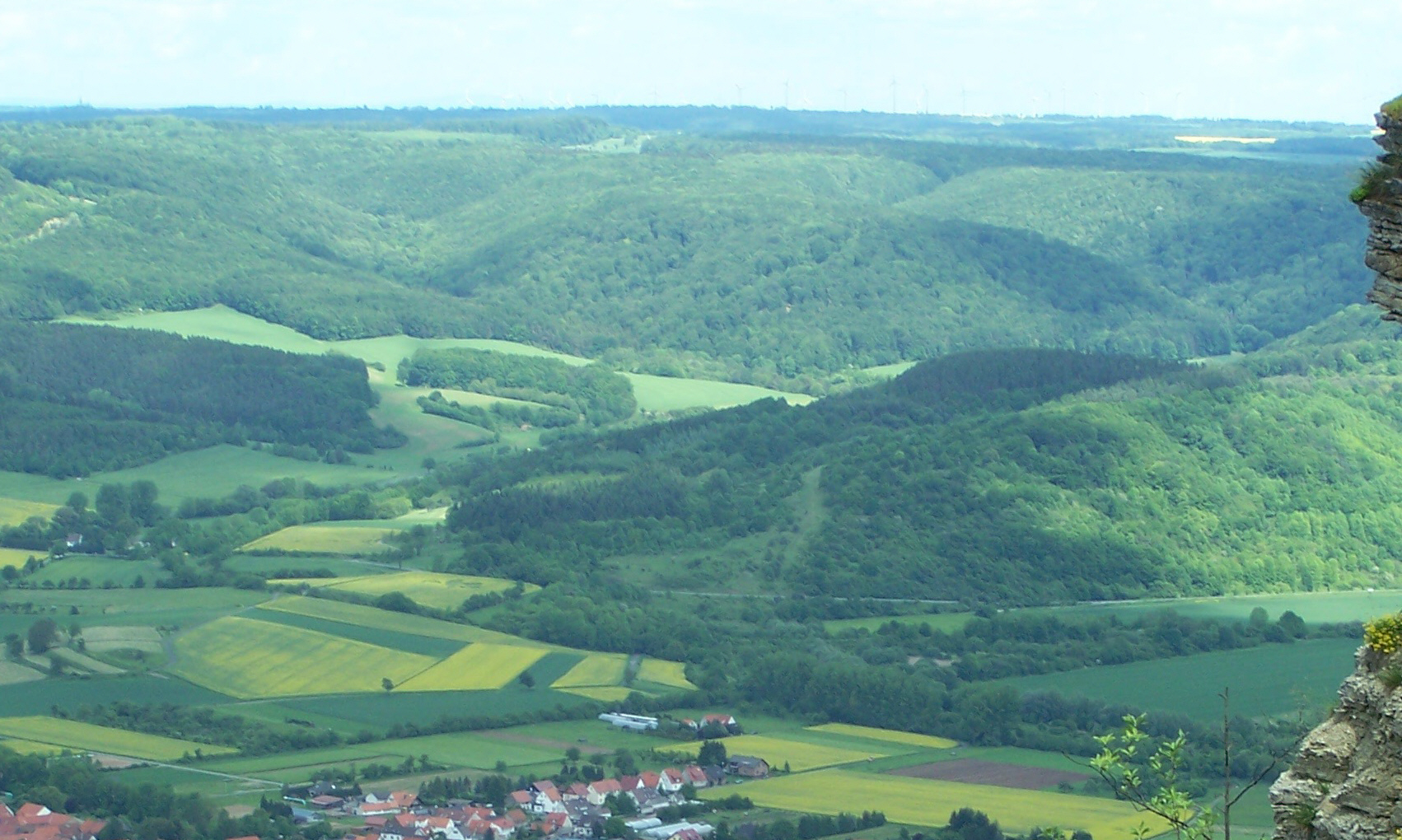 The forest Treffurter Stadtwald in Thuringia.